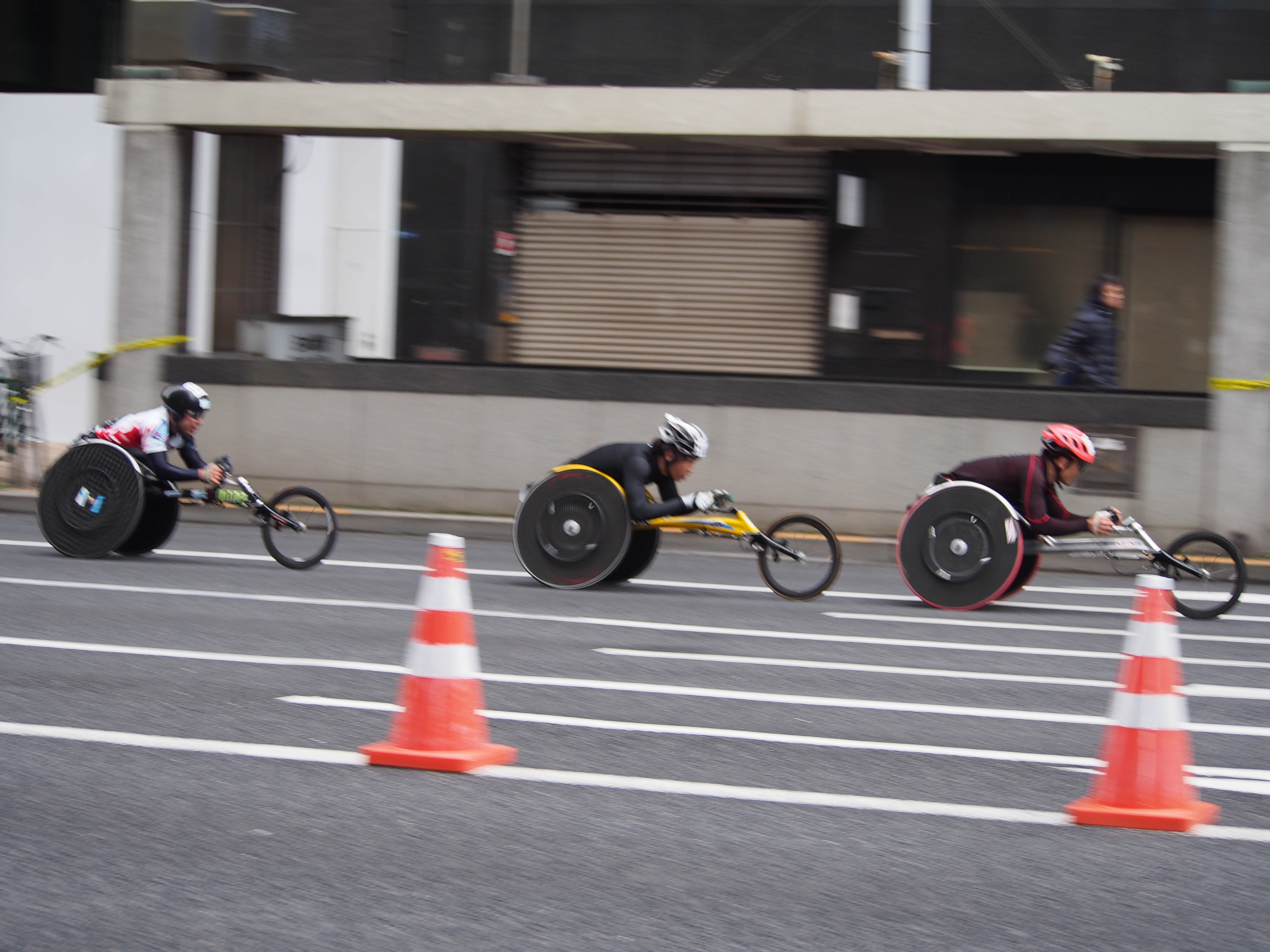 2015 Tokyo Marathon - leading wheelchair men 2/22/2015